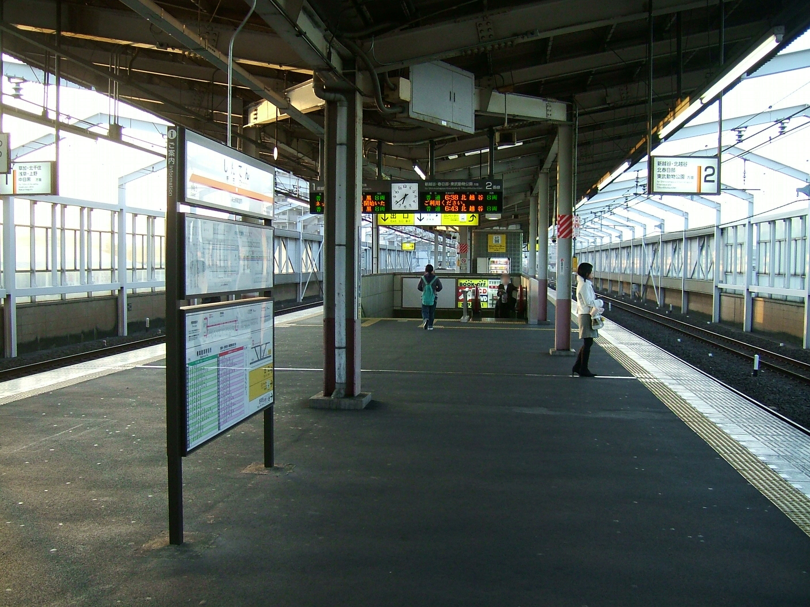 The platform at Shinden Station on the Tobu Isesaki Line (present-day Tobu Skytree Line) in Saitama Prefecture, Japan